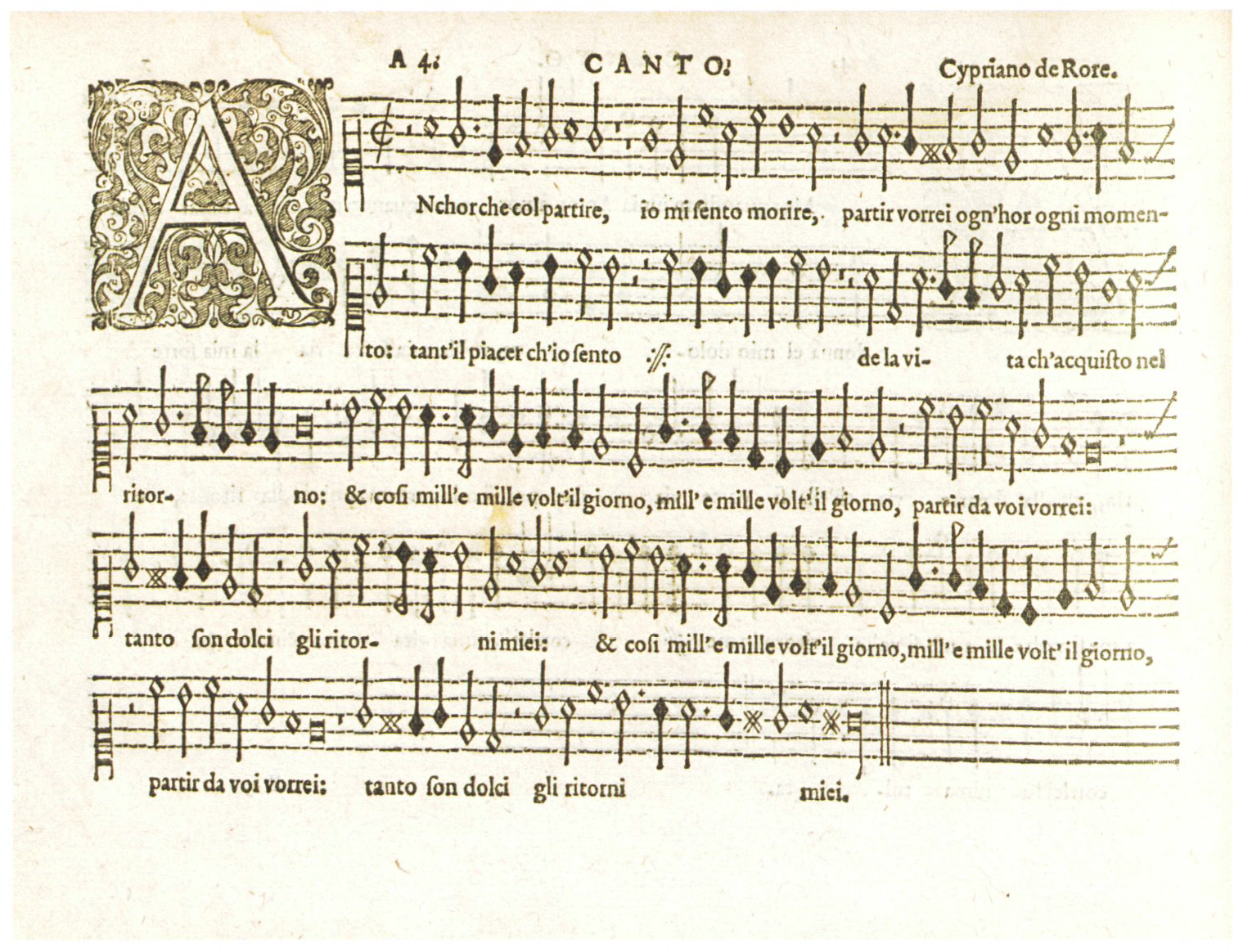 manuscript of the madrigal anchor che col partiere by Cipriano de Rore